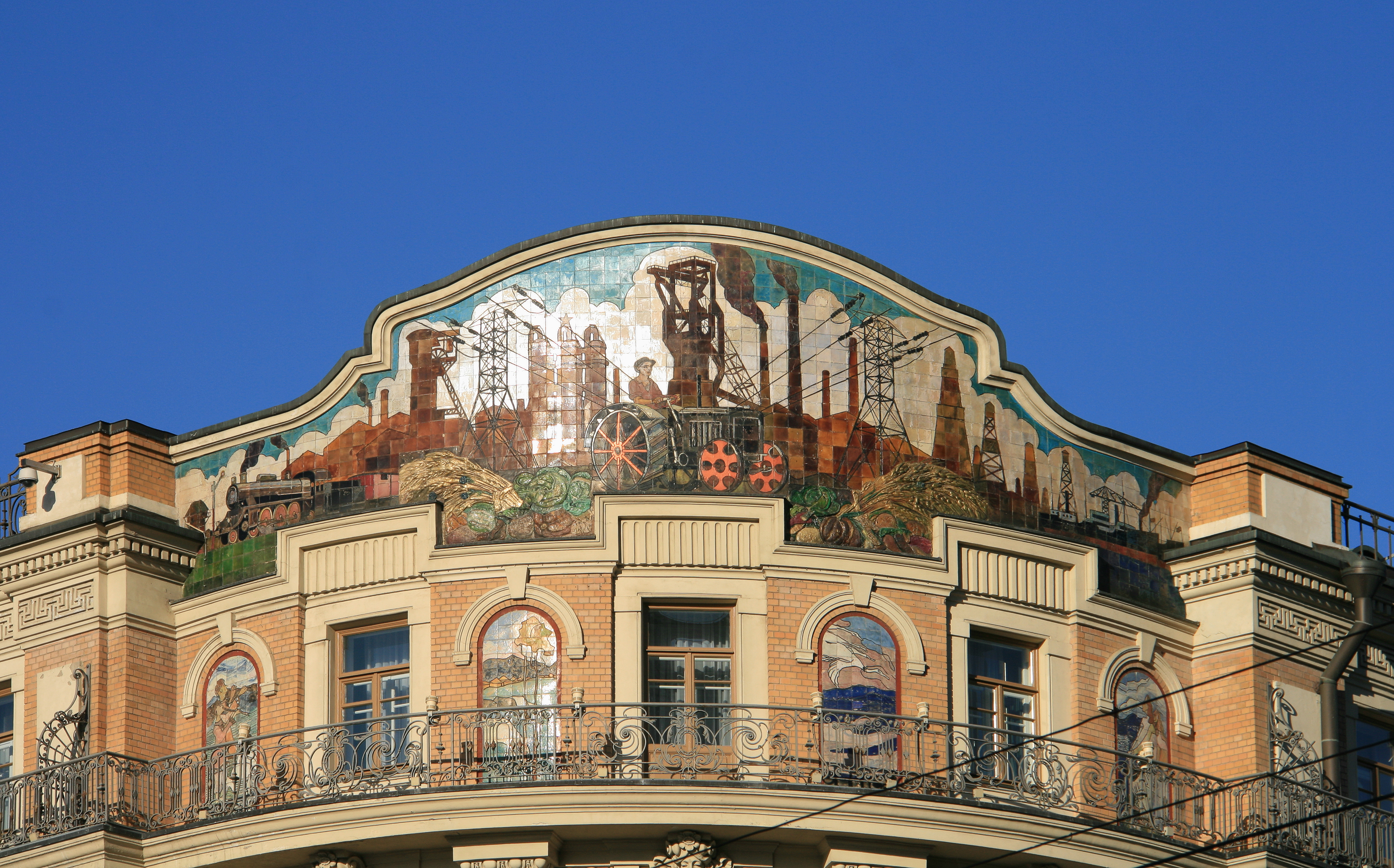 Panels of Hotel "National", Moscow